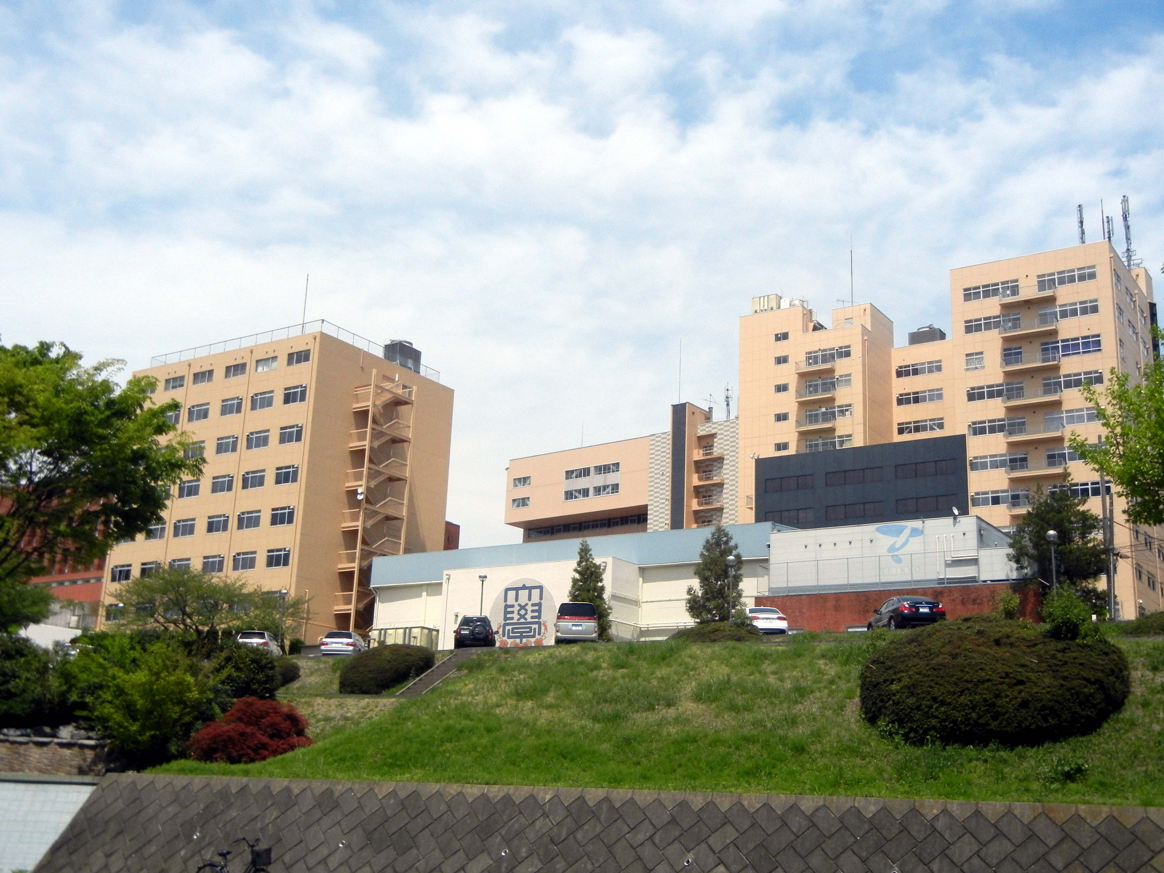 Teikyo University Hachioji Campus